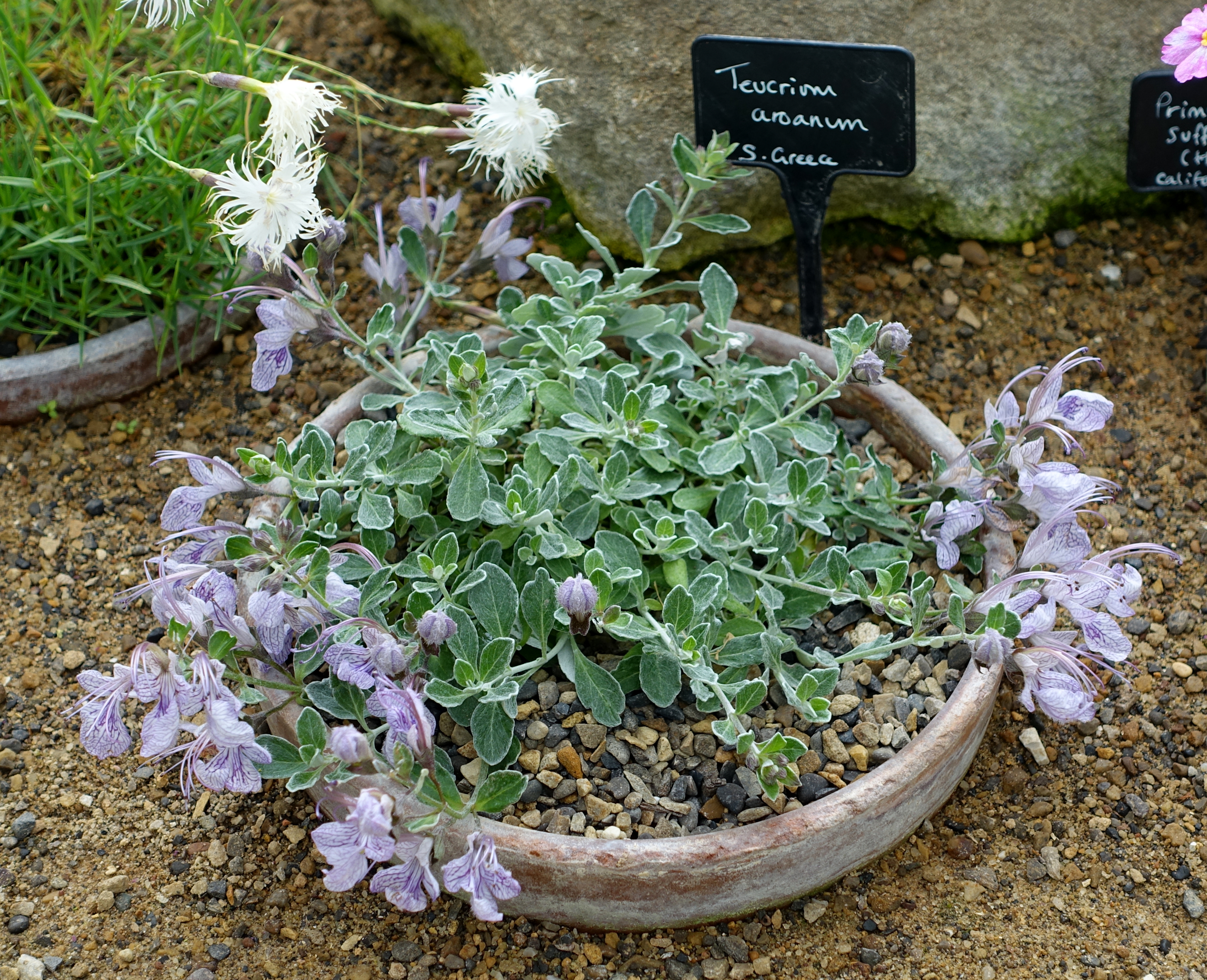 Horticultural specimen in RHS Garden Harlow Carr - North Yorkshire, England.